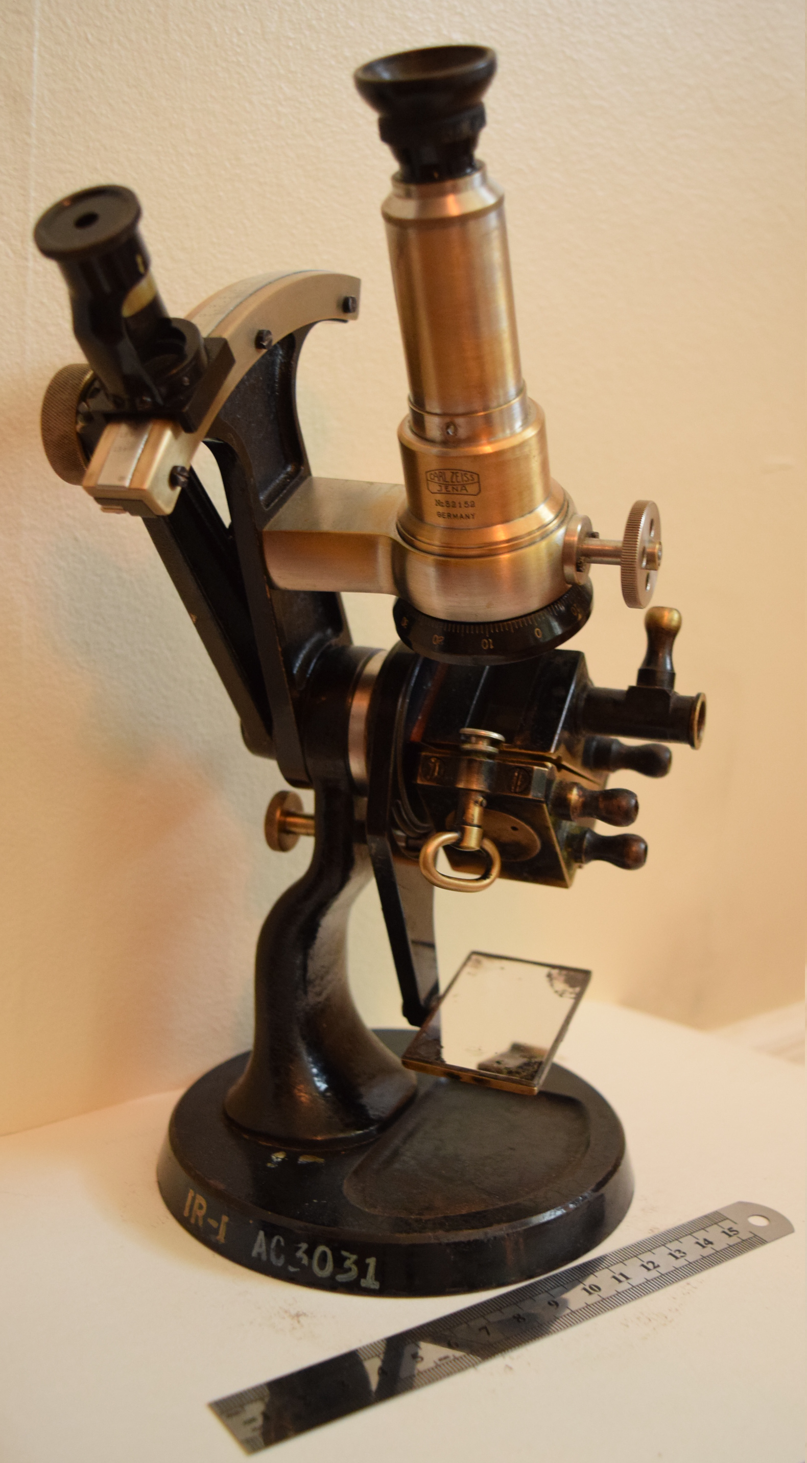 Shown in an old refractometer, manufactured by Zeiss, Germany, from the 1920s. The prism cube, holding the liquid sample, is closed.